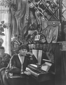 Portrait of Leni Timmermann.